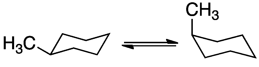 cyclohexane equilibrium